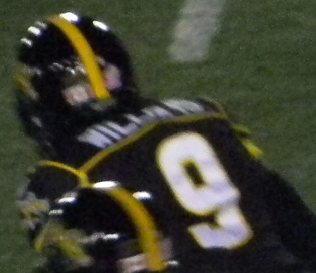 Hamilton Tiger-Cats against BC Lions on a game in Hamilton, #42Brandon Denson, #11Jeremy Kelley and #9Renauld Williams